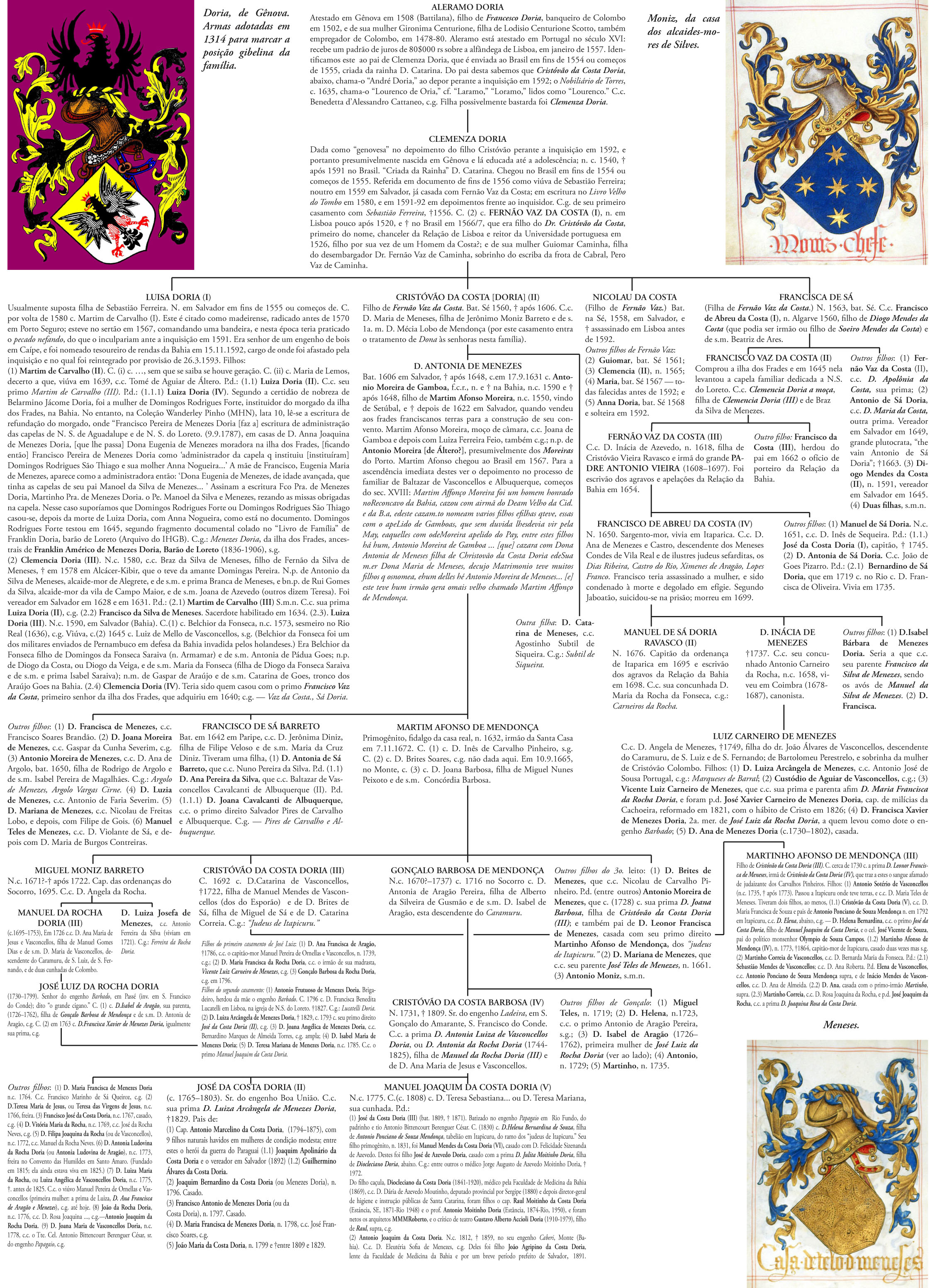 Detailed pedigree of the Costa Doria family in Brazil.